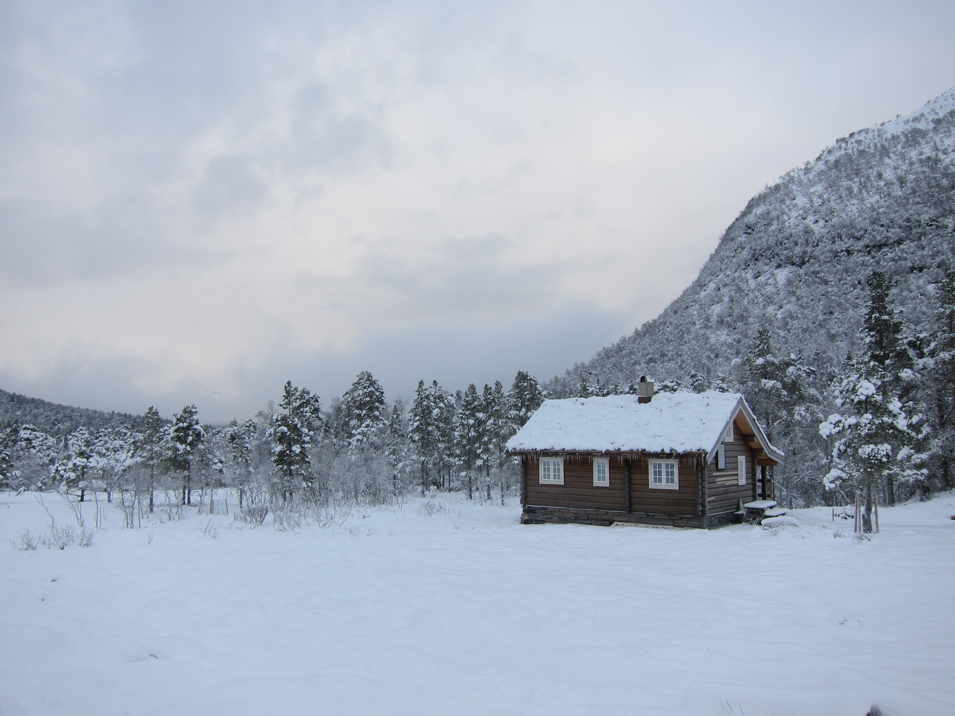 Traditional norwegian wood cabin hytte in Rekdalsetra covered with snow. This area is located in the mountains behind the village Rekdal in the municipality of Vestnes on the west coast of Norway in the region Romsdal. Picture taken on the 29th of december in 2107. 2017-12-29